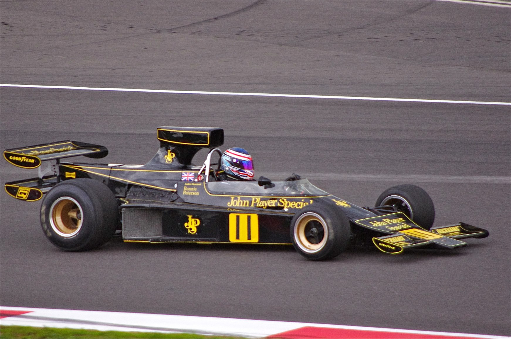 Silverstone Classic 2011